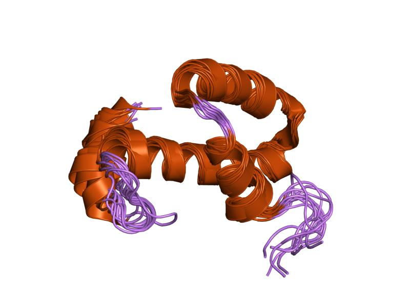 Cartoon representation of the molecular structure of protein registered with 1jw2 code.